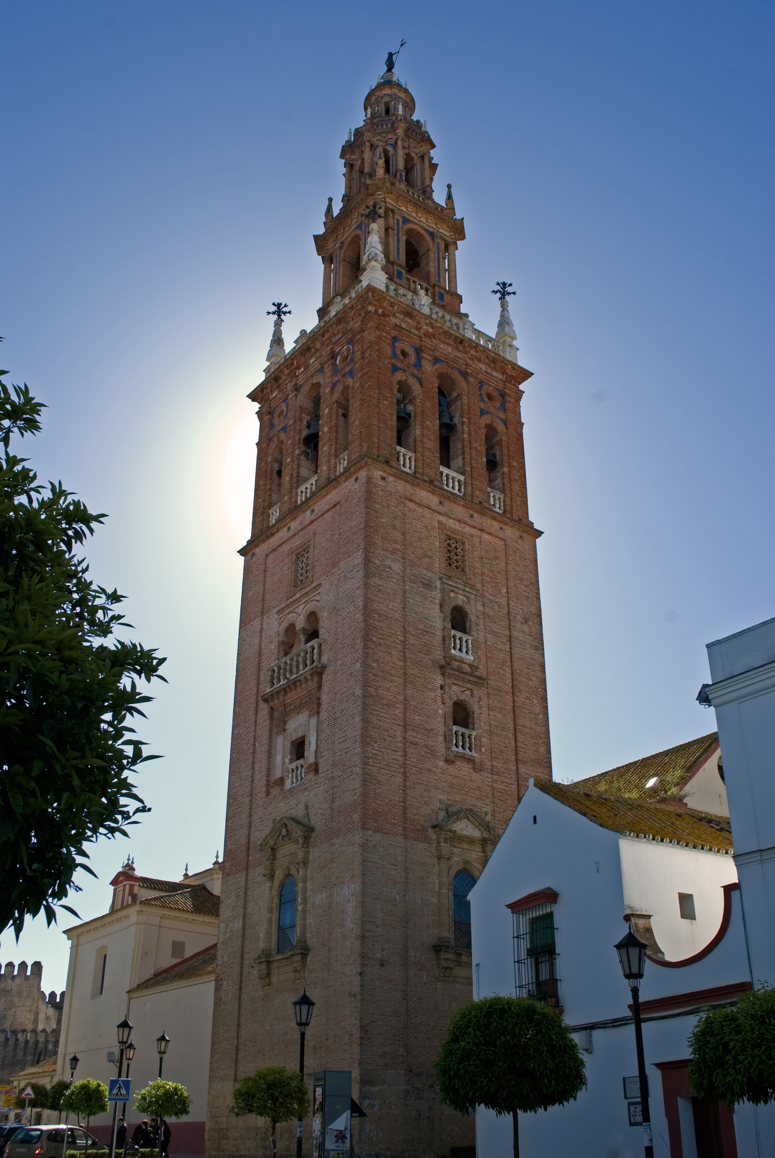 Church of Saint Peter, Carmona, province of Seville